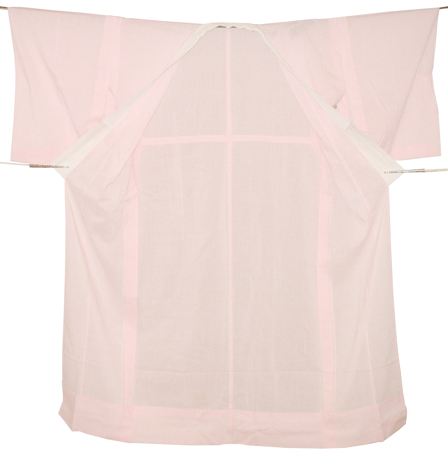 Women's single-layer (hitoe) wool juban or underkimono